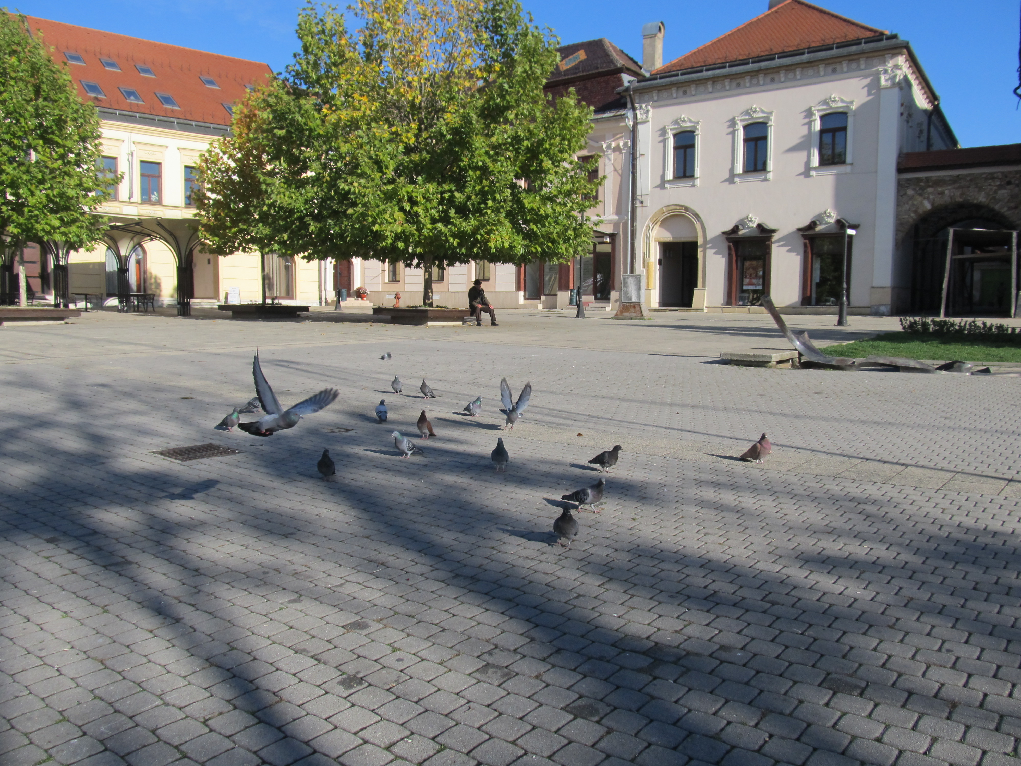 House in the historic center of the city of Baia Mare, Maramureș county, Romania.